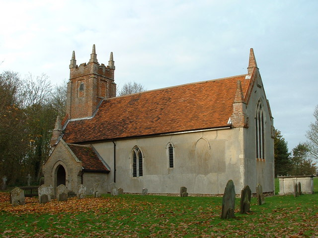 St.John the Baptist Brightwell The church of St.John the Baptist Brightwell Suffolk.